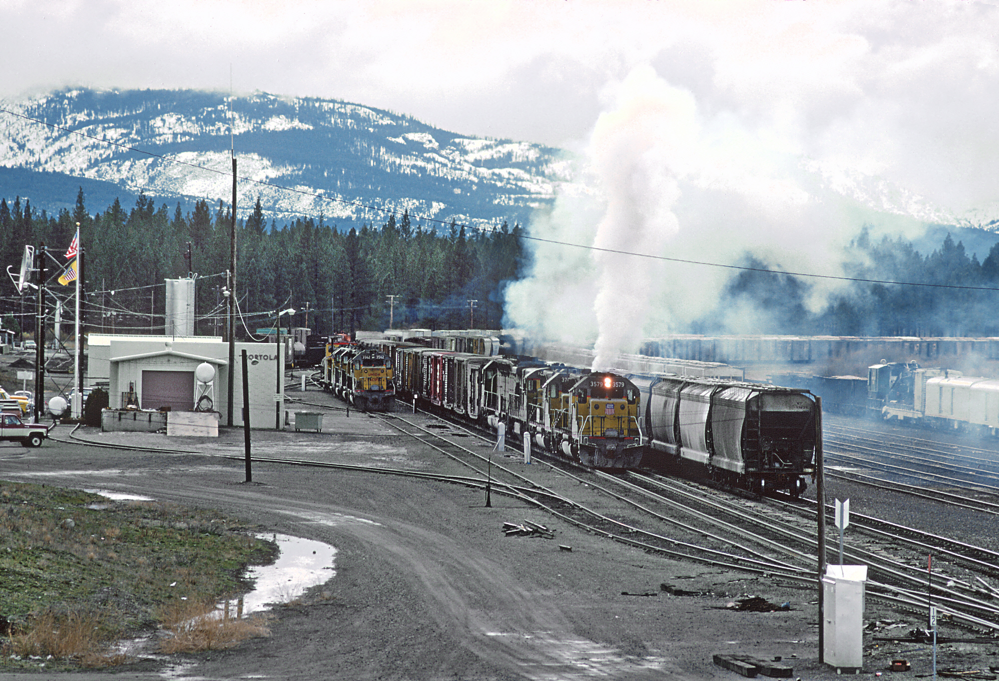 Union Pacific SD40-2 3579, SD40-2 3760, C30-7 2400, and DDA40X 6943 Portola, CA in November 1984. A Roger Puta Photograph